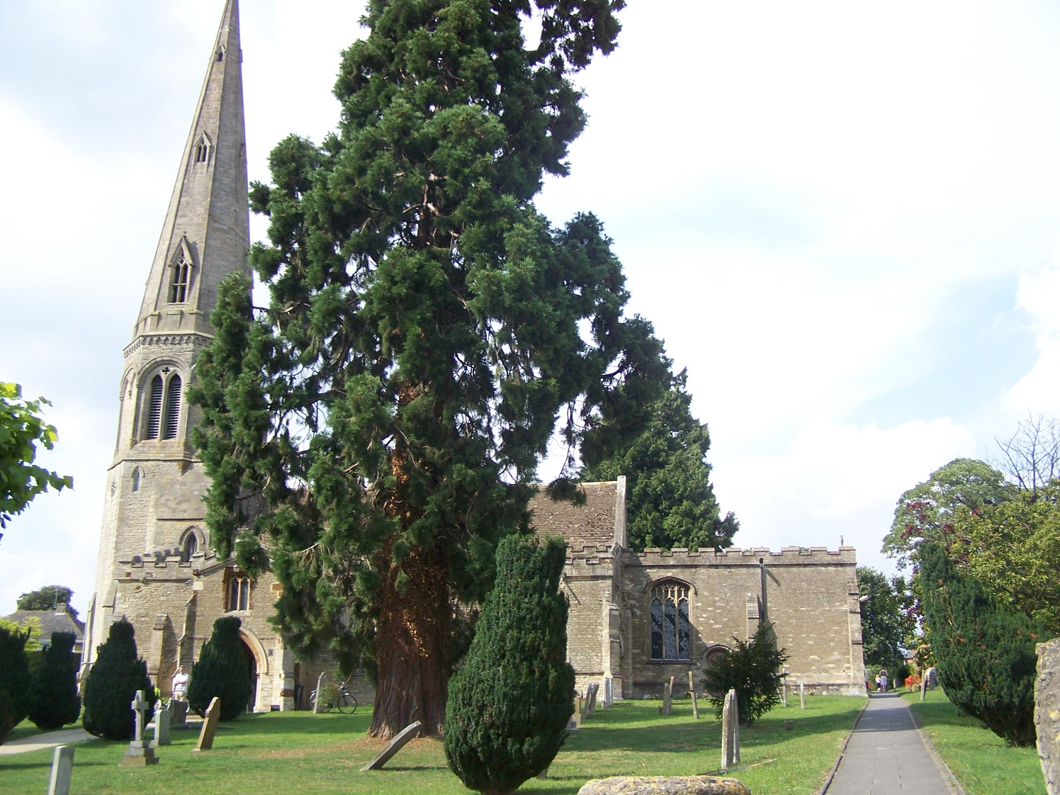 St Laurence's parish church, Stanwick, Northamptonshire, seen from the south